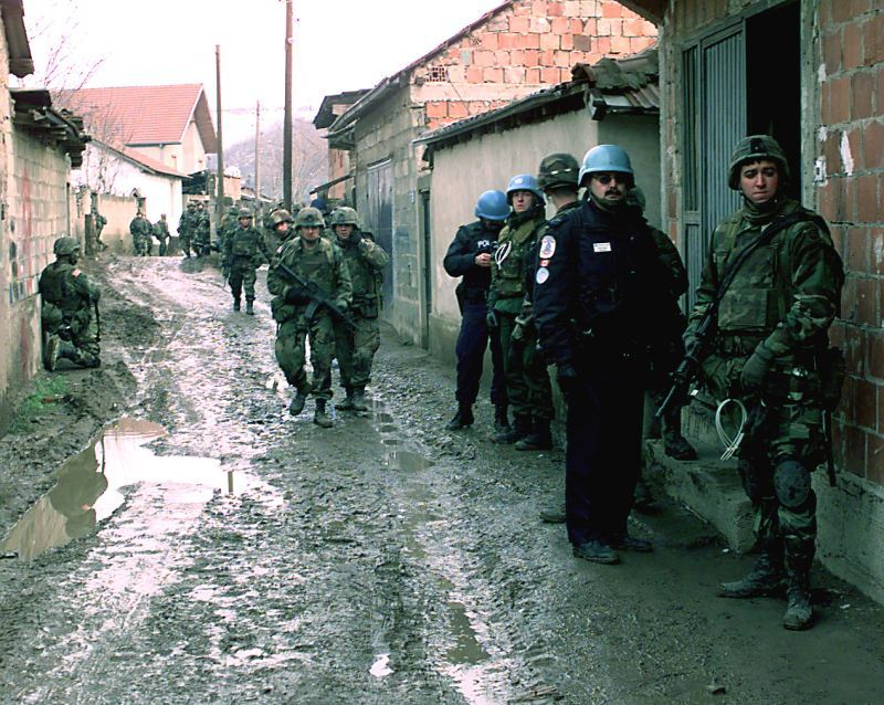 Soldiers from the U.S. Army's Bravo Company, 3rd Battalion, 504th Parachute Infantry Regiment, and United Nations' police move down a muddy alley way in Mitrovica, Kosovo, as they conduct a house-to-house search for weapons on Feb. 21, 2000. The soldiers are attached to the 82nd Airborne Division, Fort Bragg, N.C., and are deployed to Kosovo as part of KFOR. KFOR is the NATO-led, international military force in Kosovo on the peacekeeping mission known as Operation Joint Guardian.